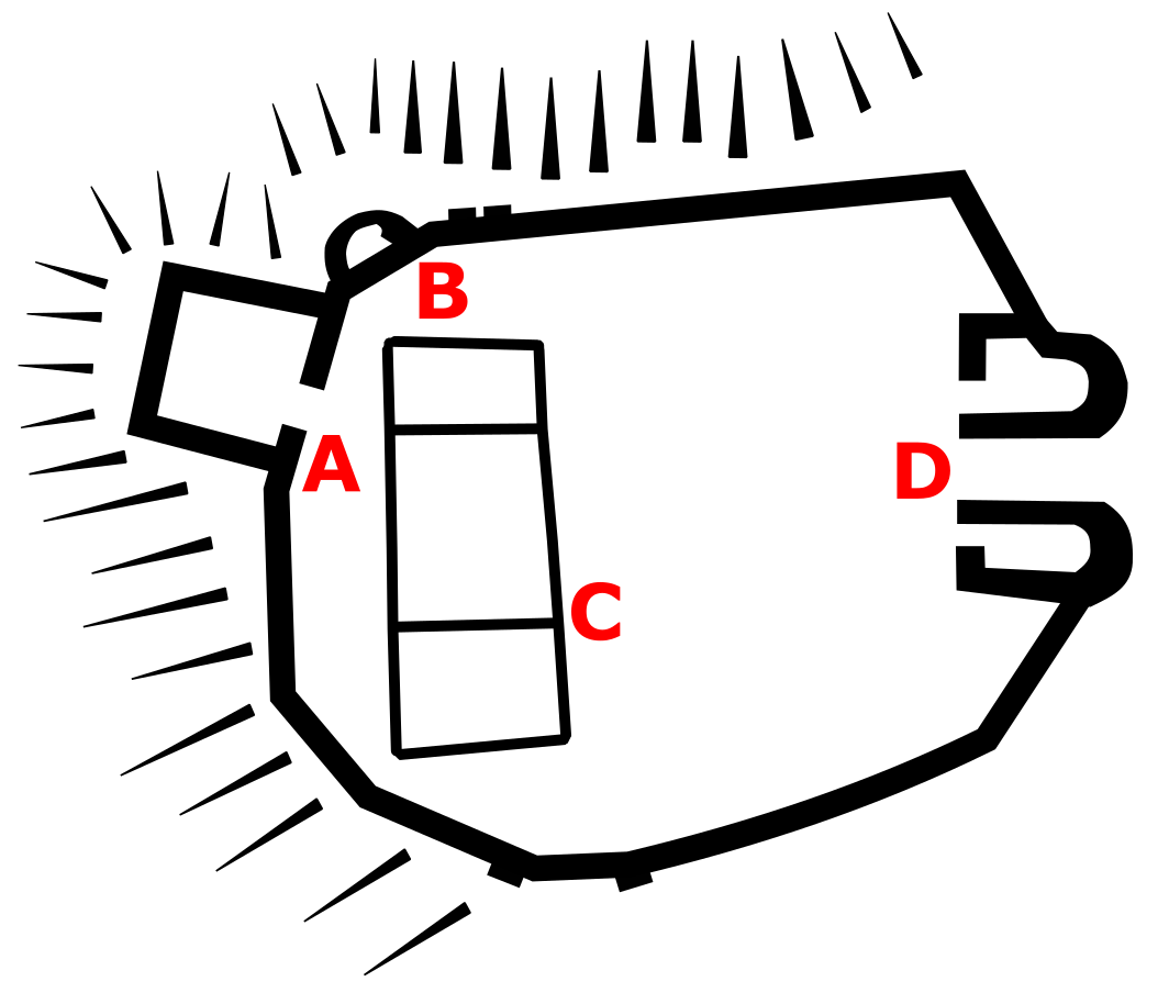 Plan of late Pennard Castle, after 1991 survey